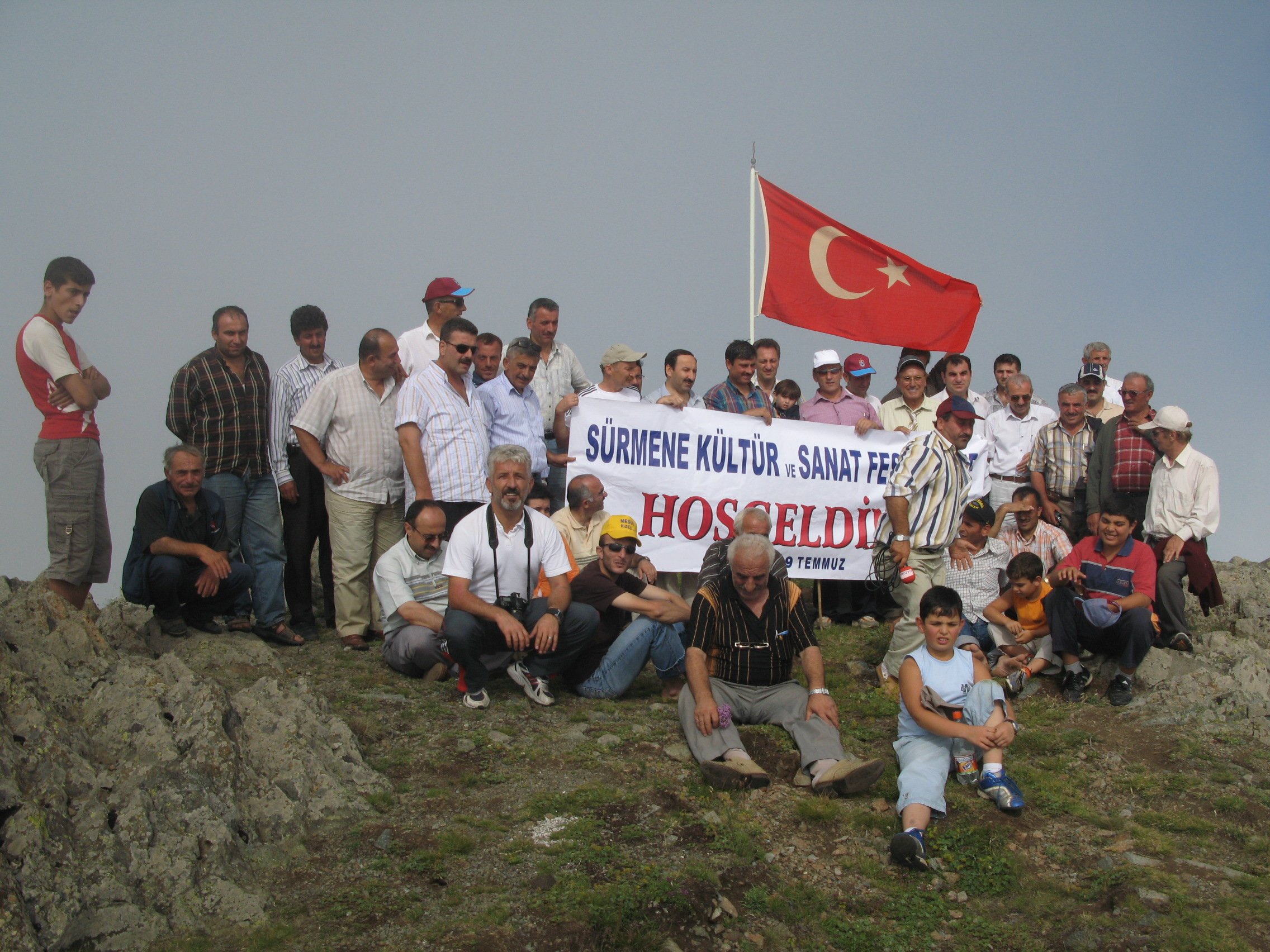 the ten thousand march to Madur in 2007